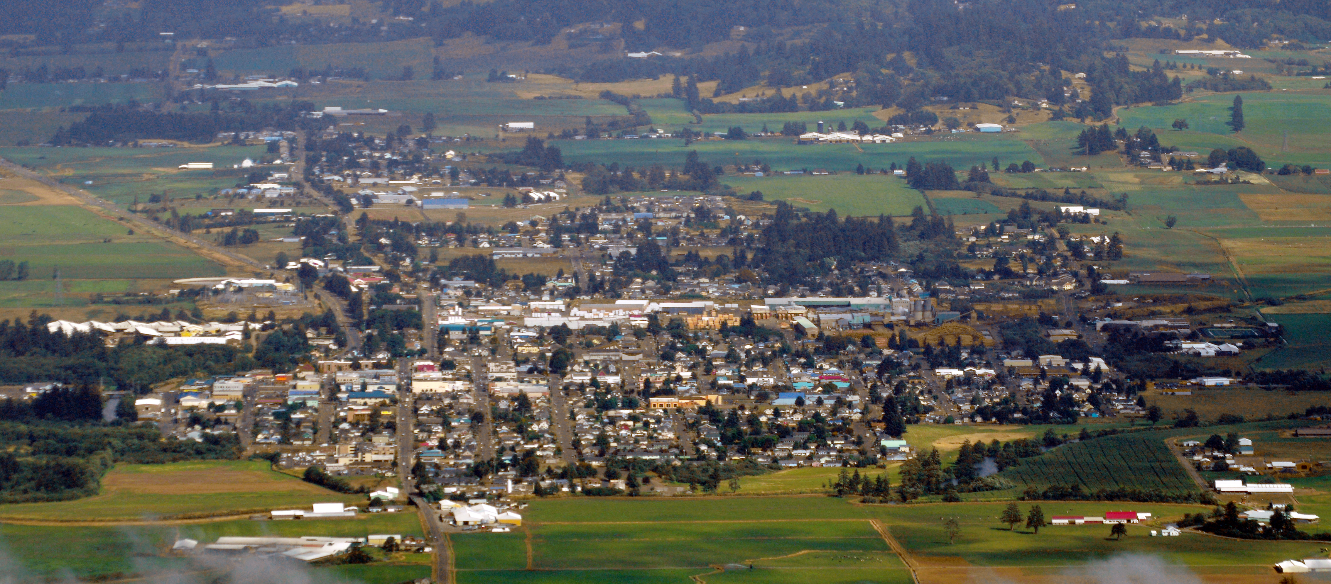 Aerial View of Tillamook, Oregon